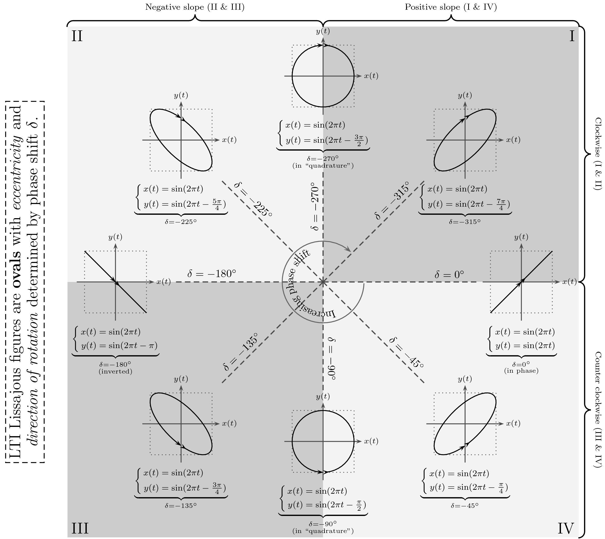 Figure showing several Lissajous figures for different phase delays.